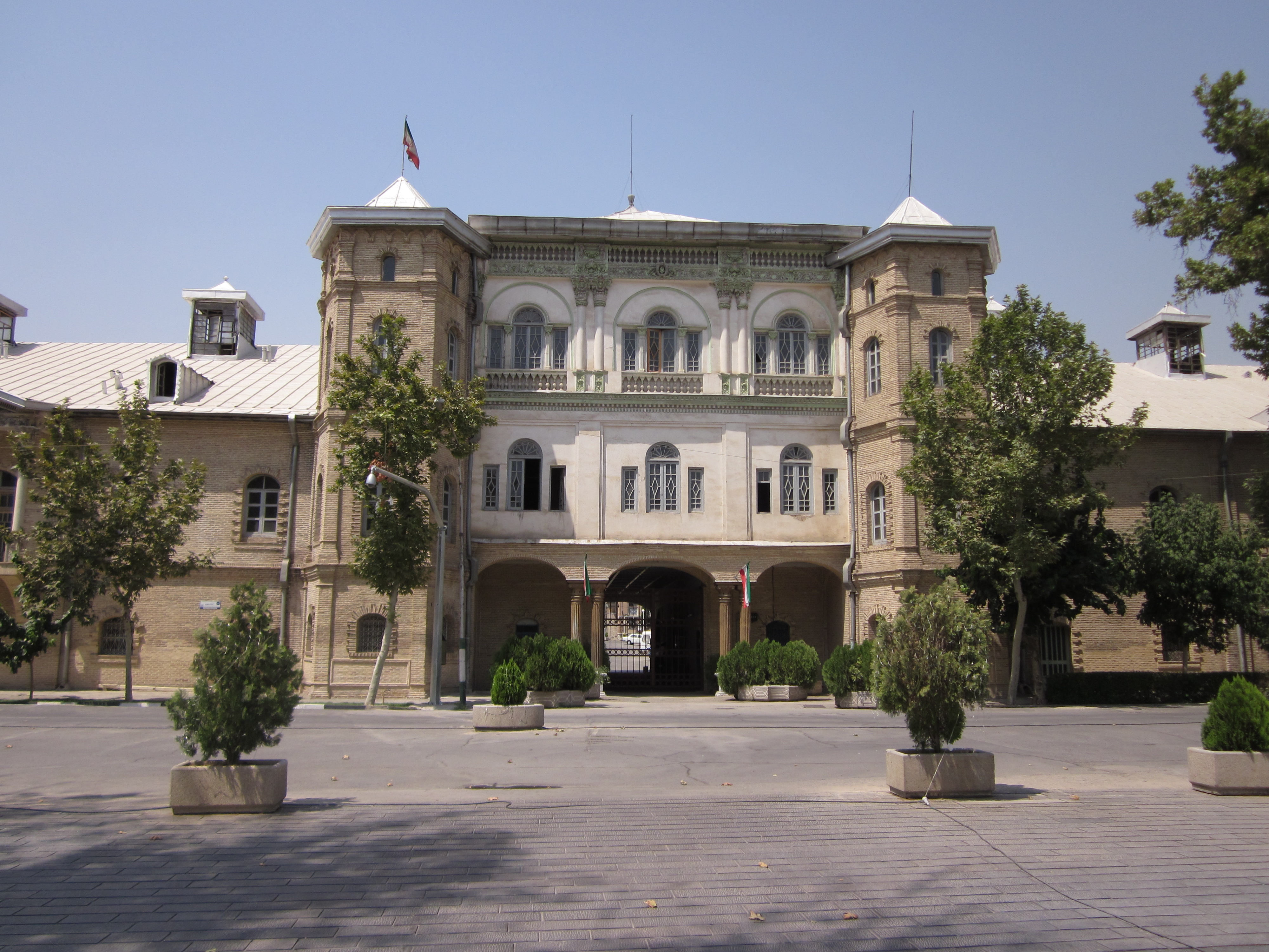 Parade Ground's Complex, Tehran, Iran.